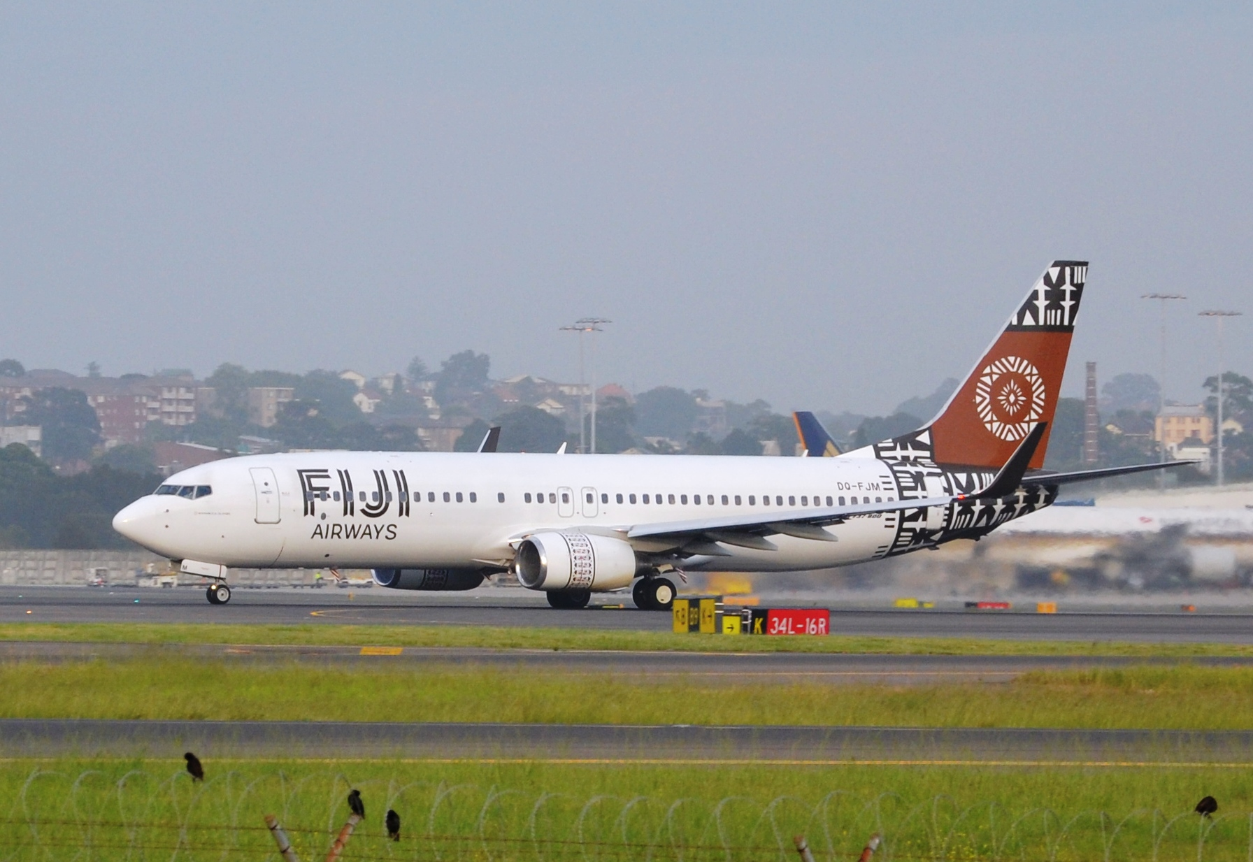 Boeing 737-86J(WL) - cn 37754 / ln 3306 Reg DO-FJM - Fiji Airways (FJ) 06:30 departure from Sydney to Nadi